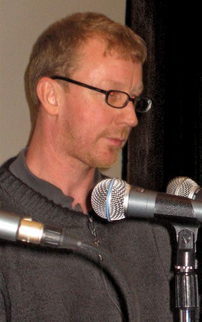 Dave Rowntree